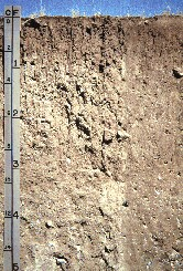 Scobey Soil profile